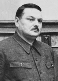 Soviet politician Andrei Zhdanov